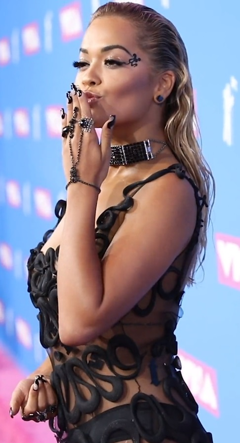 Rita Ora at 2018 VMA Red Carpet